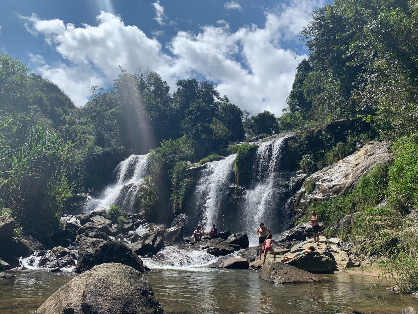 Matasano Falls